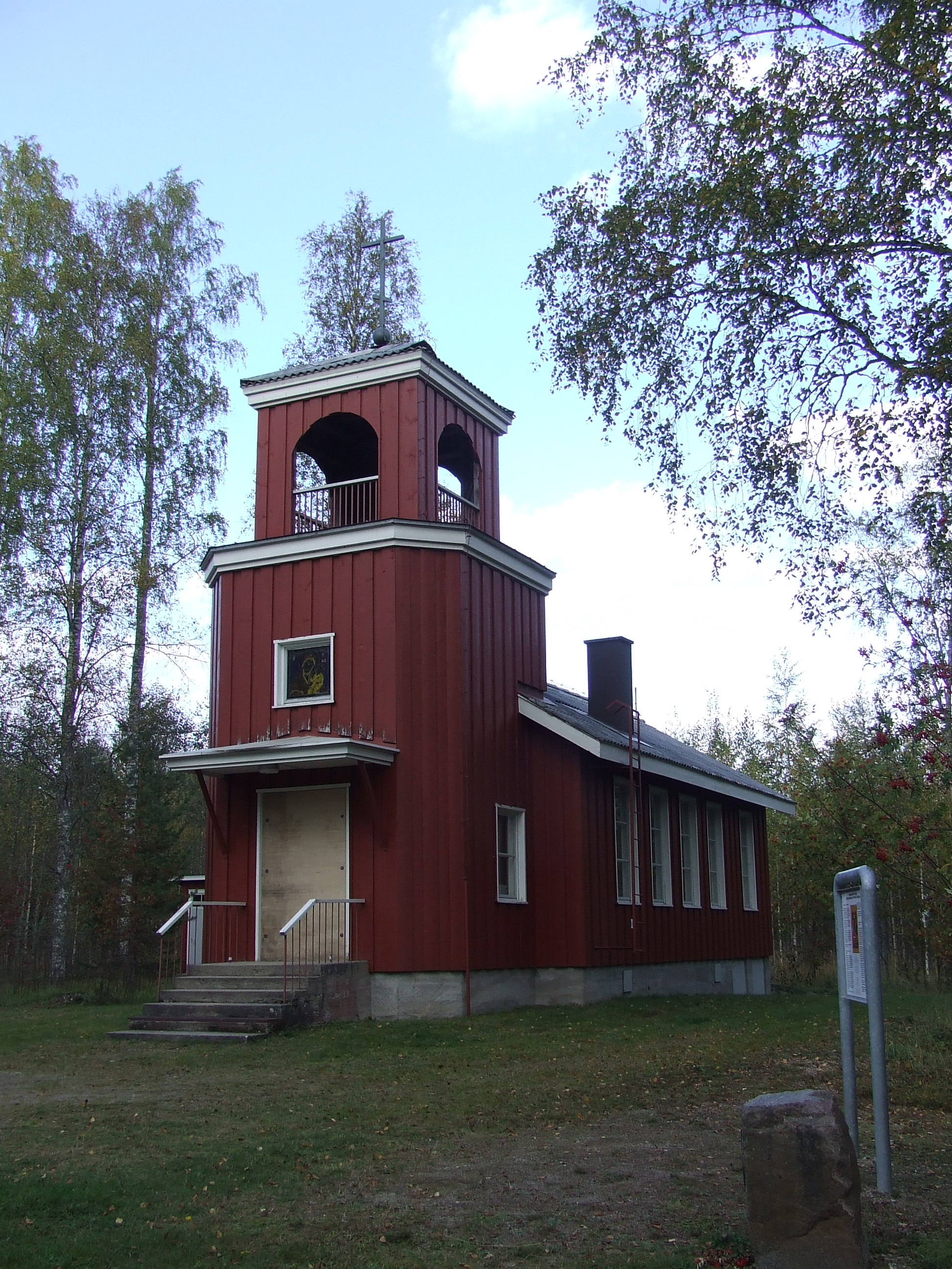 Mutalahti orthodox chapel in Ilomantsi, Finland.